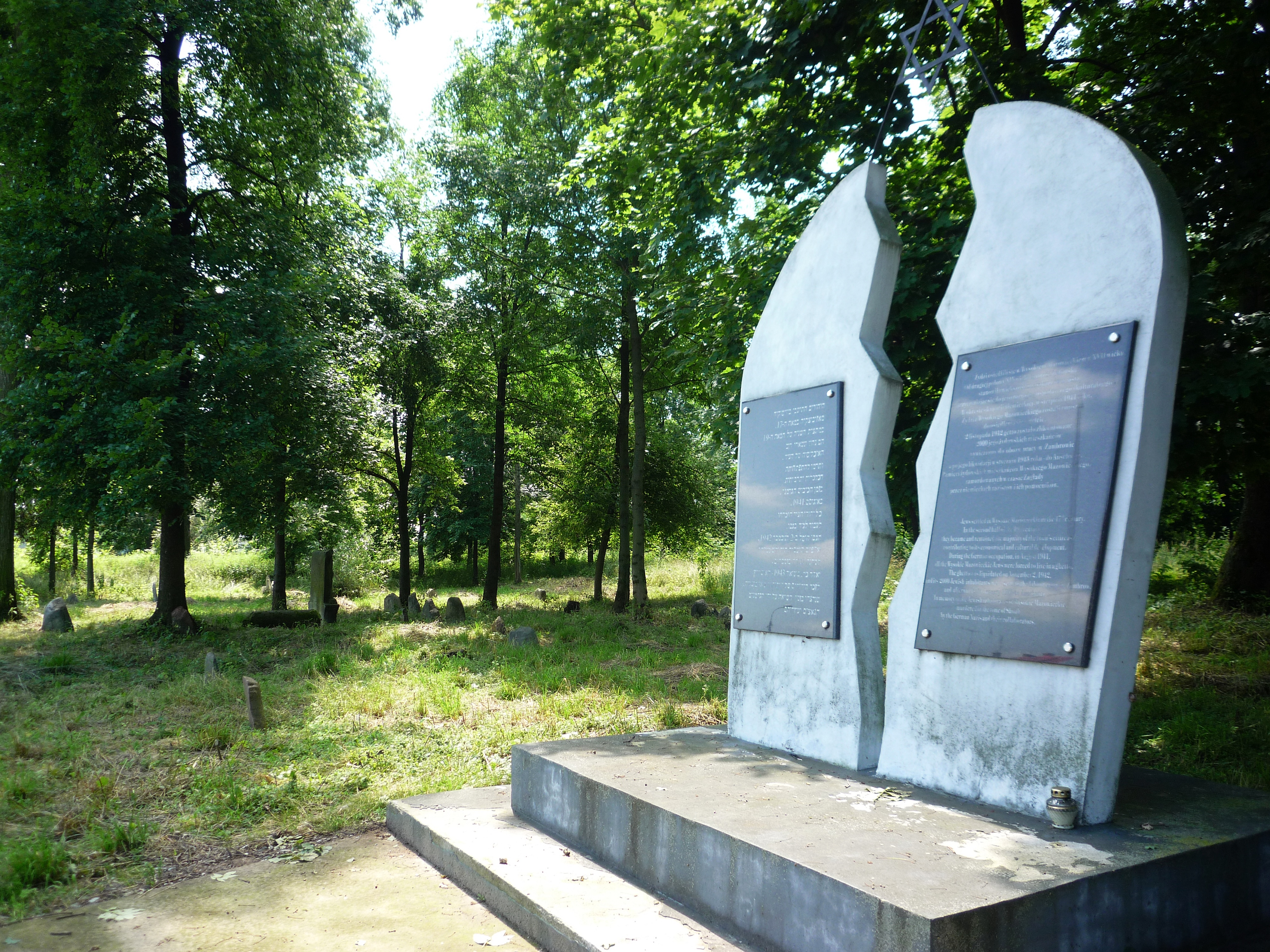 Jewish cemetery in Wysokie Mazowieckie, Poland (renovated 2006)